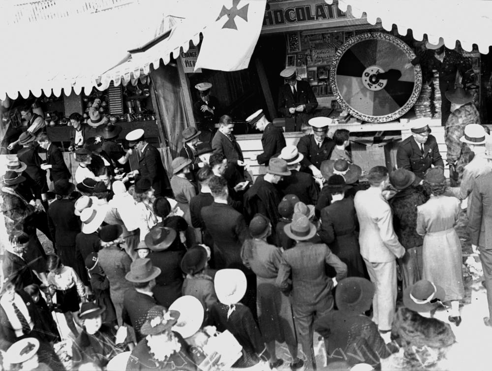 Chocolate Wheel at the Ambulance stall, Exhibition Ground, Brisbane, 1938 Ambulance Service Chocolate Wheel draws a large crowd at the Ekka on 29 April 1938.